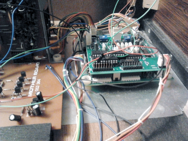 This MIDI-ed assigner board attaches to the Jupiter-4's original one.